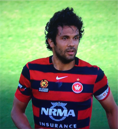 Nikolai Topor-Stanley playing against Newcastle Jets on 13 March 2016.